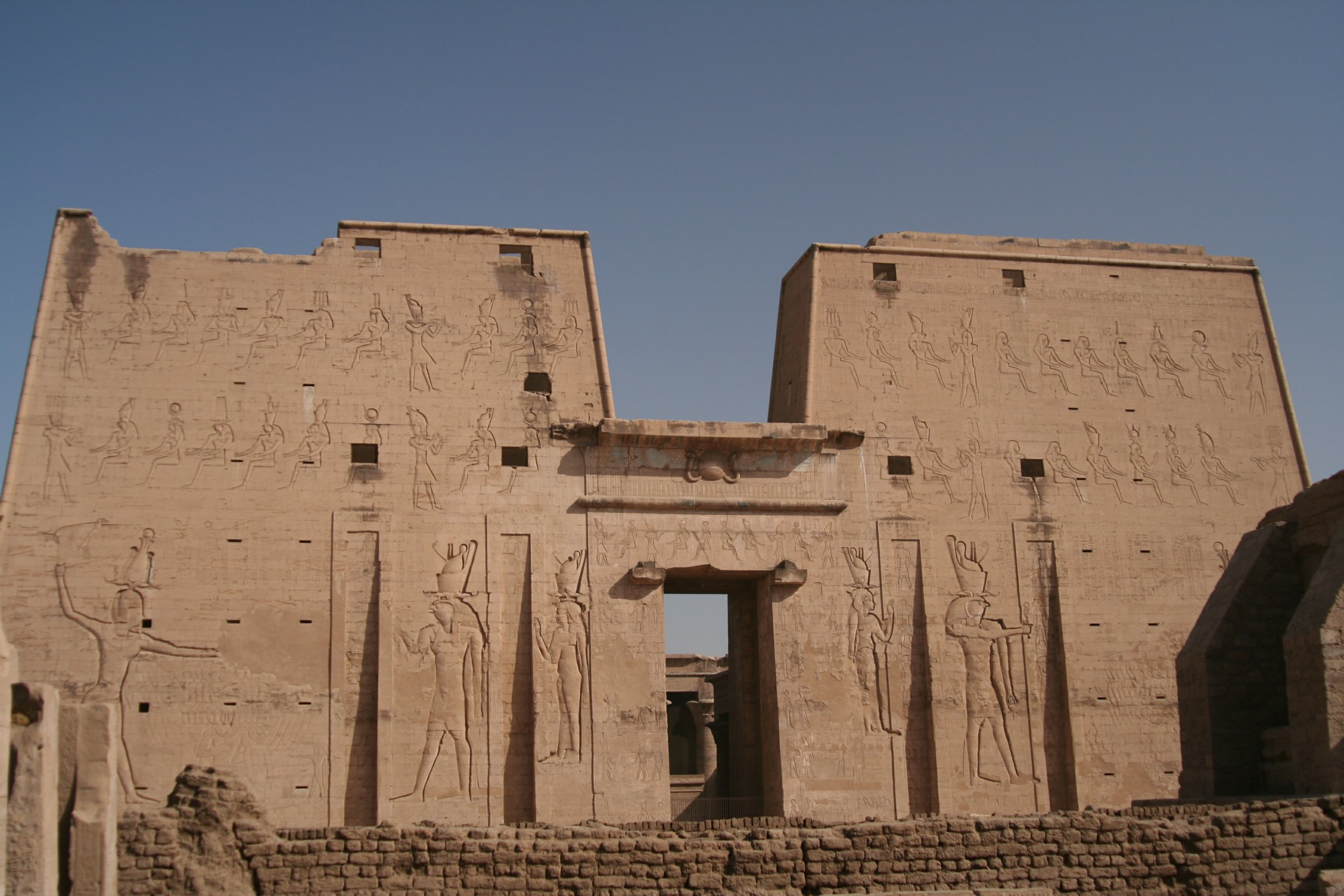 First Pylon - Temple of Horus @ Edfu